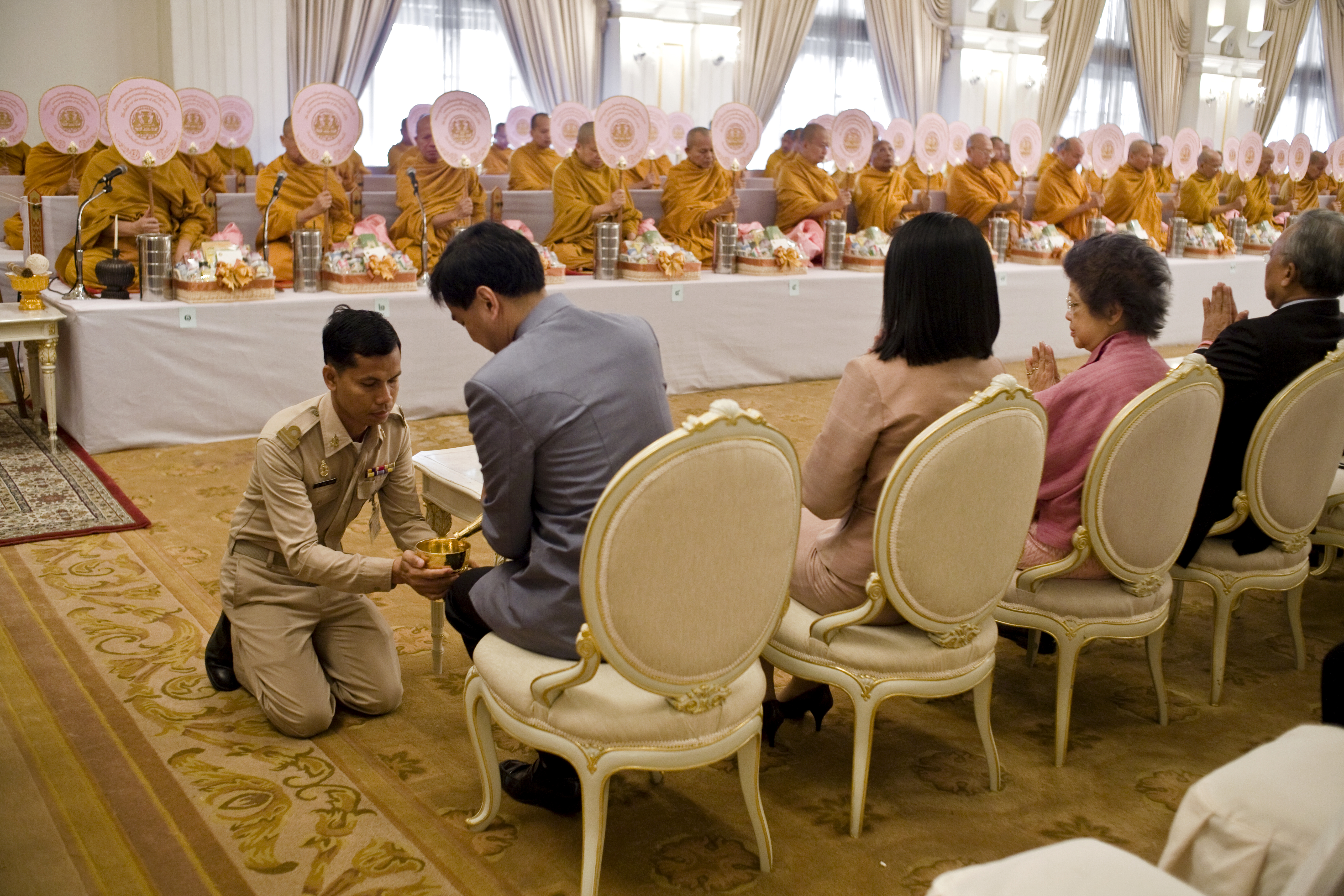 กรวดน้ำ นายกรัฐมนตรีและภริยา เป็นประธานในพิธีถวายภัตตาหารเช้าแด่พระสงฆ์ จำนวน 83 รูป ณ ตึกสันติไมตรีหลังนอก ทำเนียบรัฐบาล 5 กุมภาพันธ์ 2553 (The Official Site of The Prime Minister of Thailand Photo by พีรพัฒน์ วิมลรังครัตน์) (Water pouring: The Prime Minister and his wife presided over the ceremony of offering breakfast to 83 monks at the Santi Maitri Building, Government House, 5 February 2010. (Source: Google translate, with minor edits.))